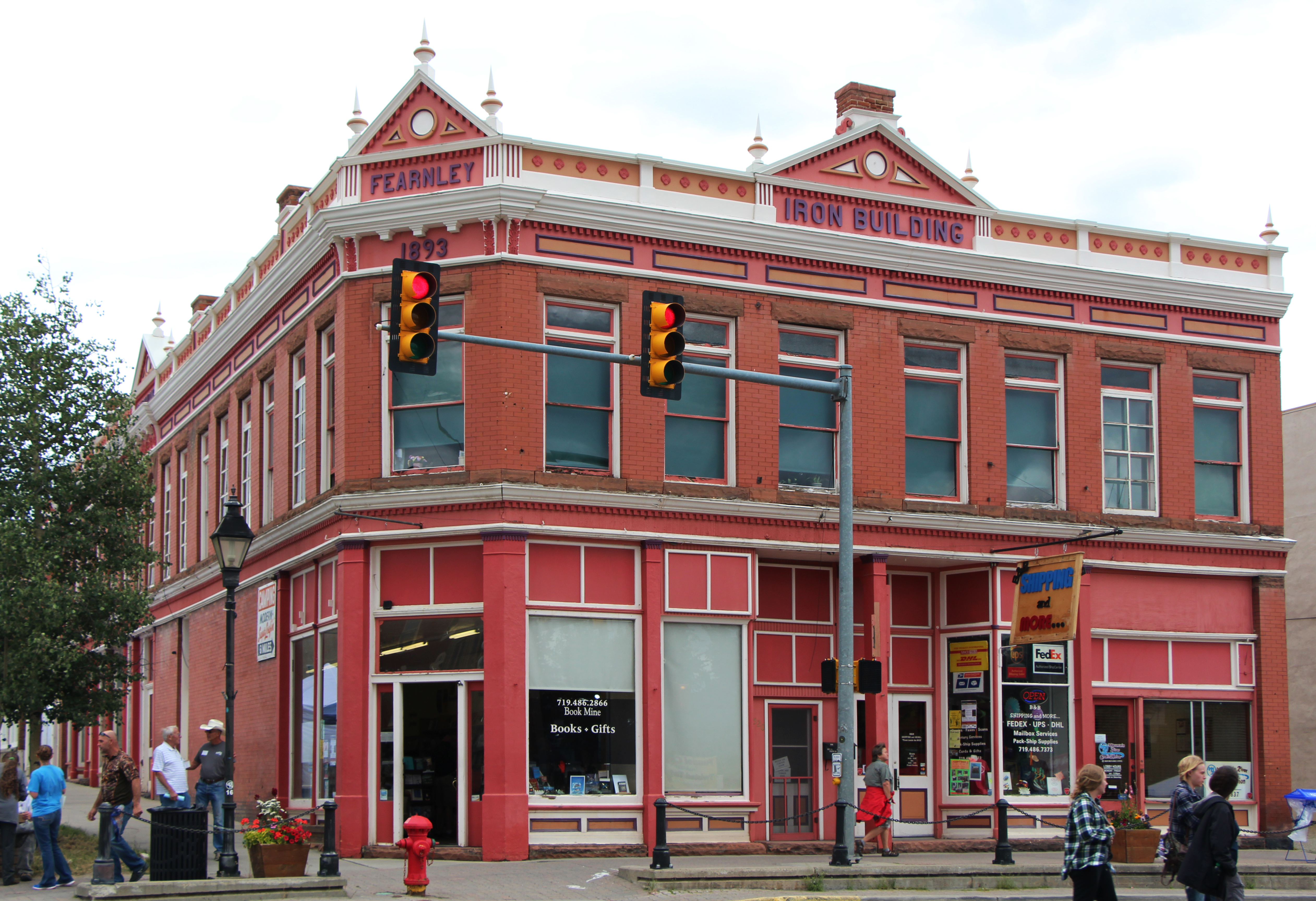 Iron Building, 518 Harrison Ave., Leadville, CO